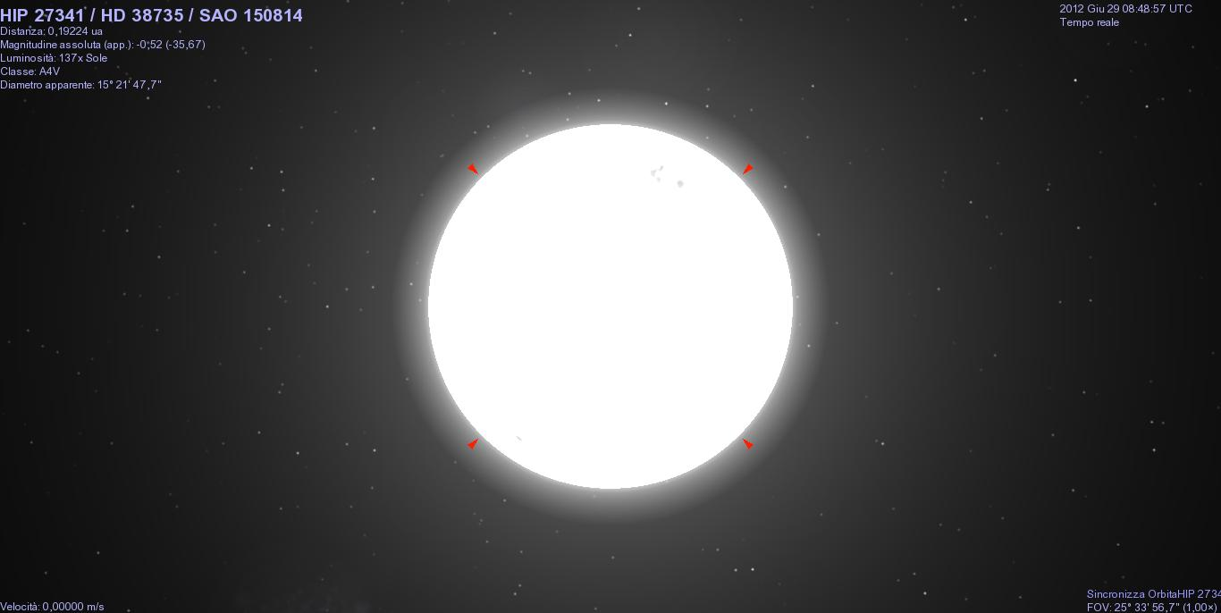 HD 38735 in Celestia